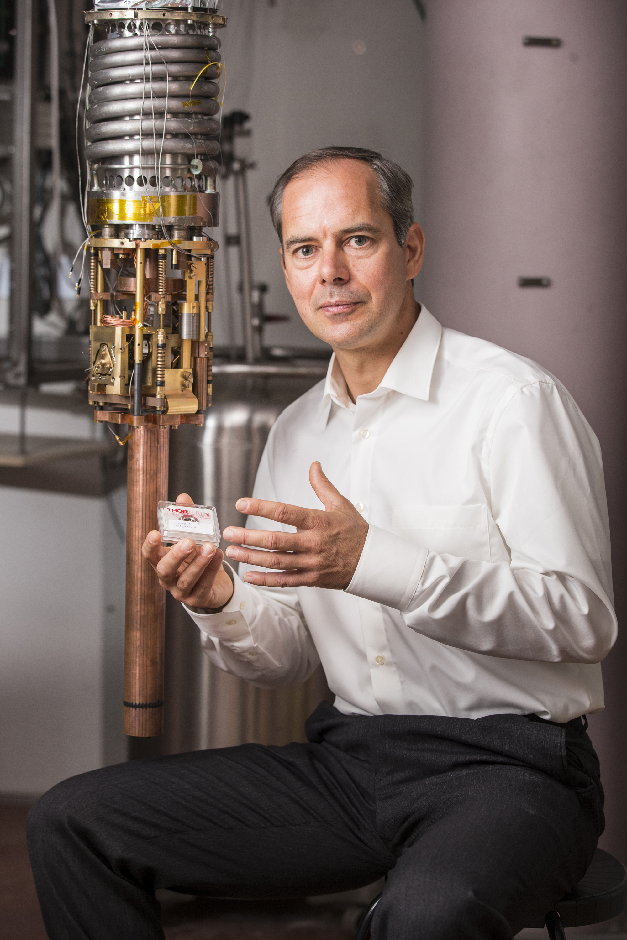 Dutch physicist Drik Bouwmeester (2014)